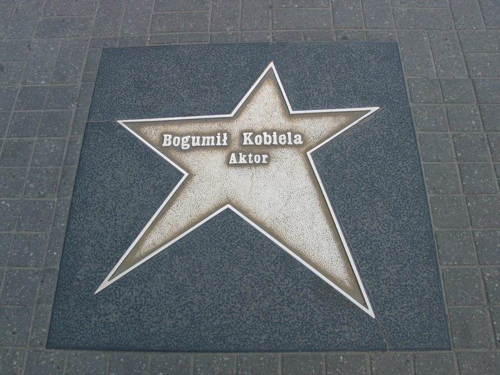 Łódź Walk of Fame - Bogumił Kobiela